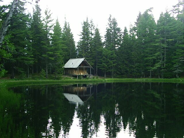 VIsitorsko lake in Prokletije mountains, Montenegro